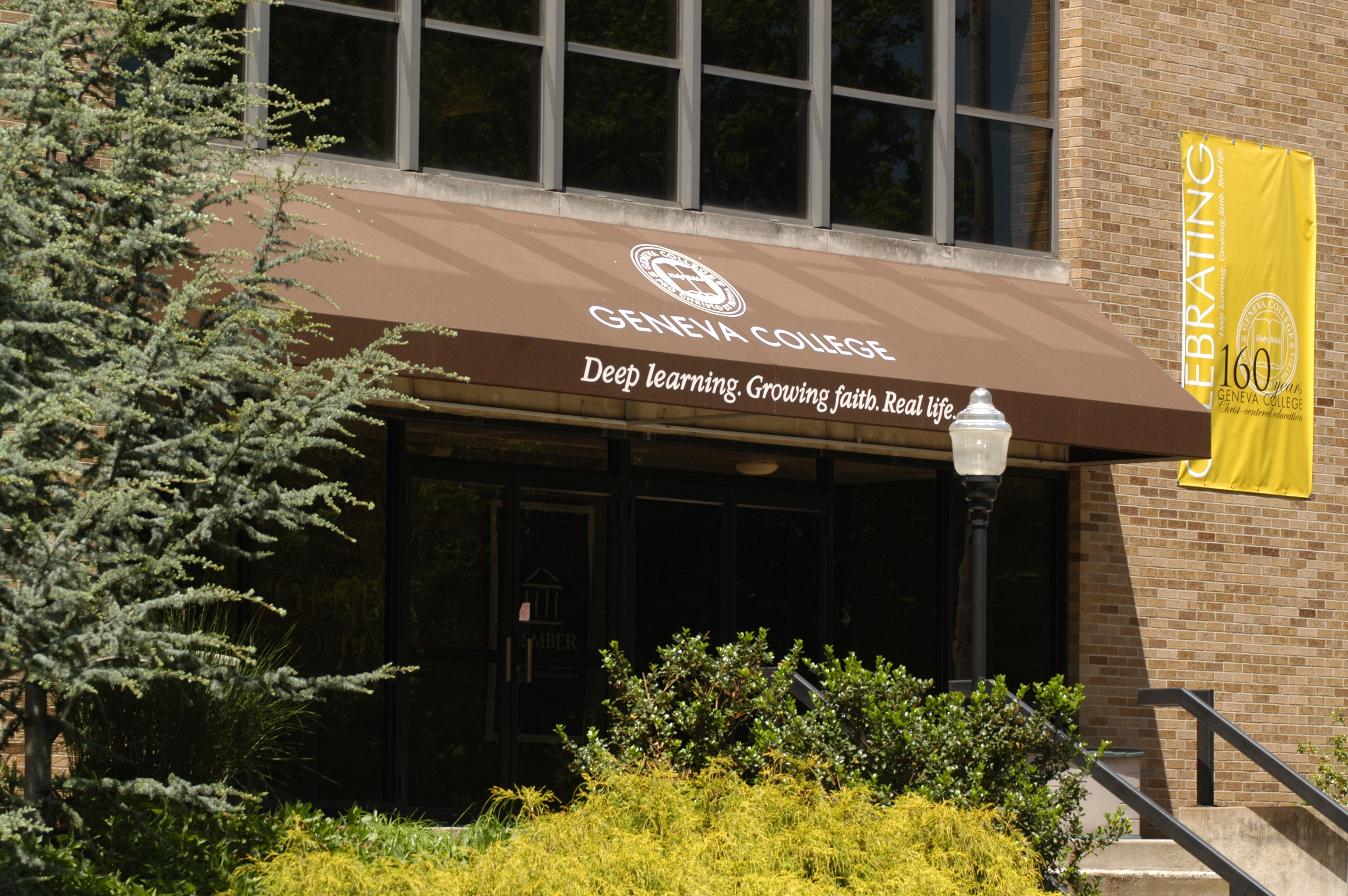 Photo of Alexander Hall on Geneva College's campus